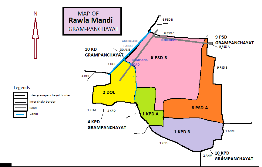 This map is about 5 chaks of Rawla Mandi grampanchayat.I wikiuser Shemaroo aka Sivender Singh has drawn for wikipedia.Shemaroo (talk) 11:26, 26 January 2013 (UTC)